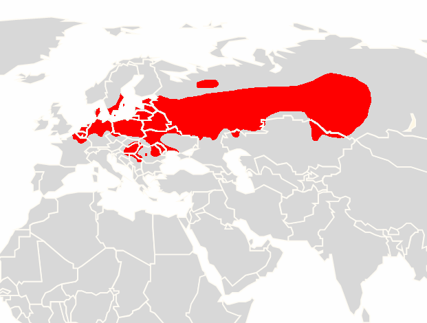 Pond Bat (Myotis dasycneme), range map, depending on the range map at IUCN red list